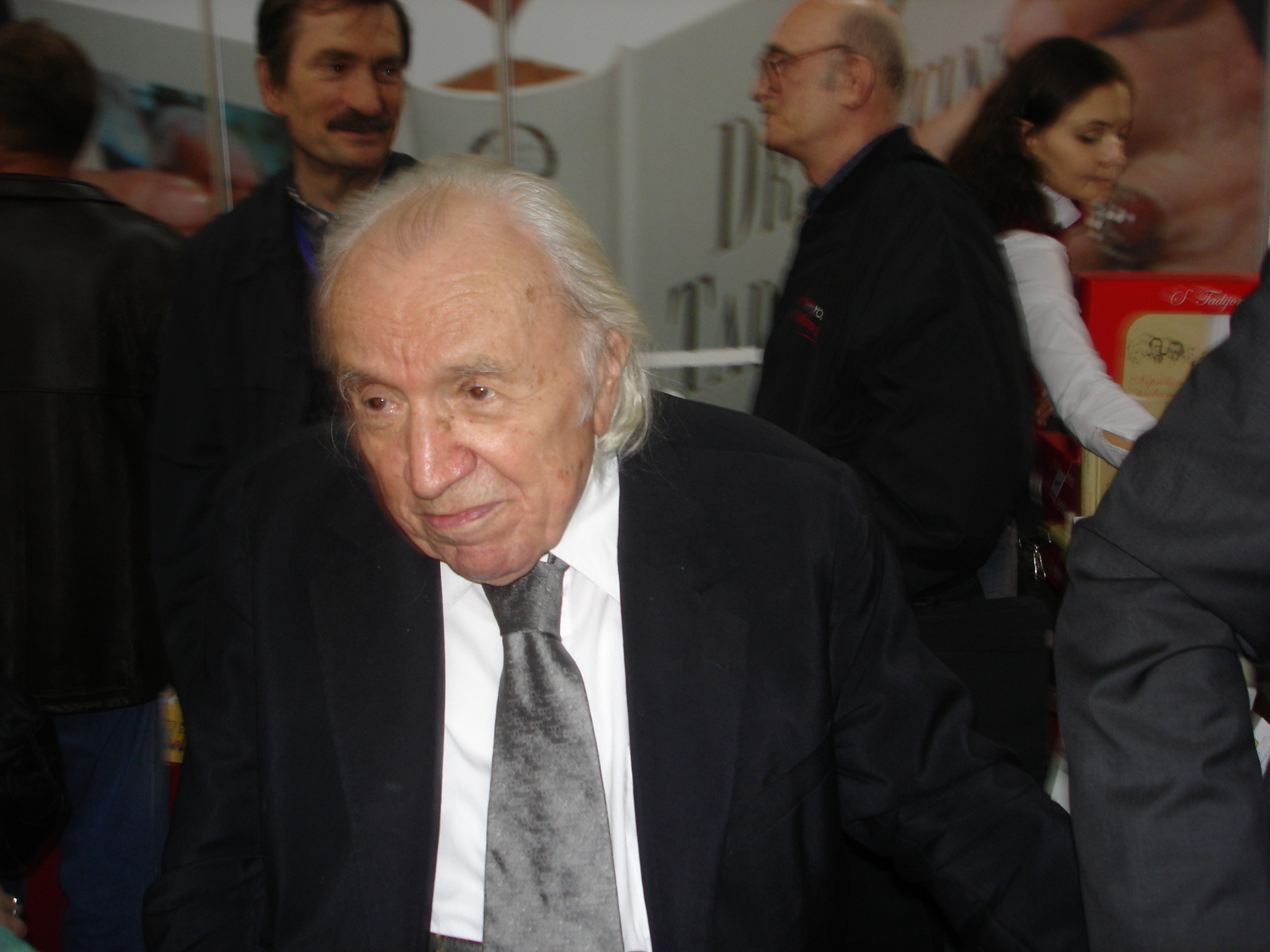 Croatian poet Dragutin Tadijanović, 100 years old in 2005.